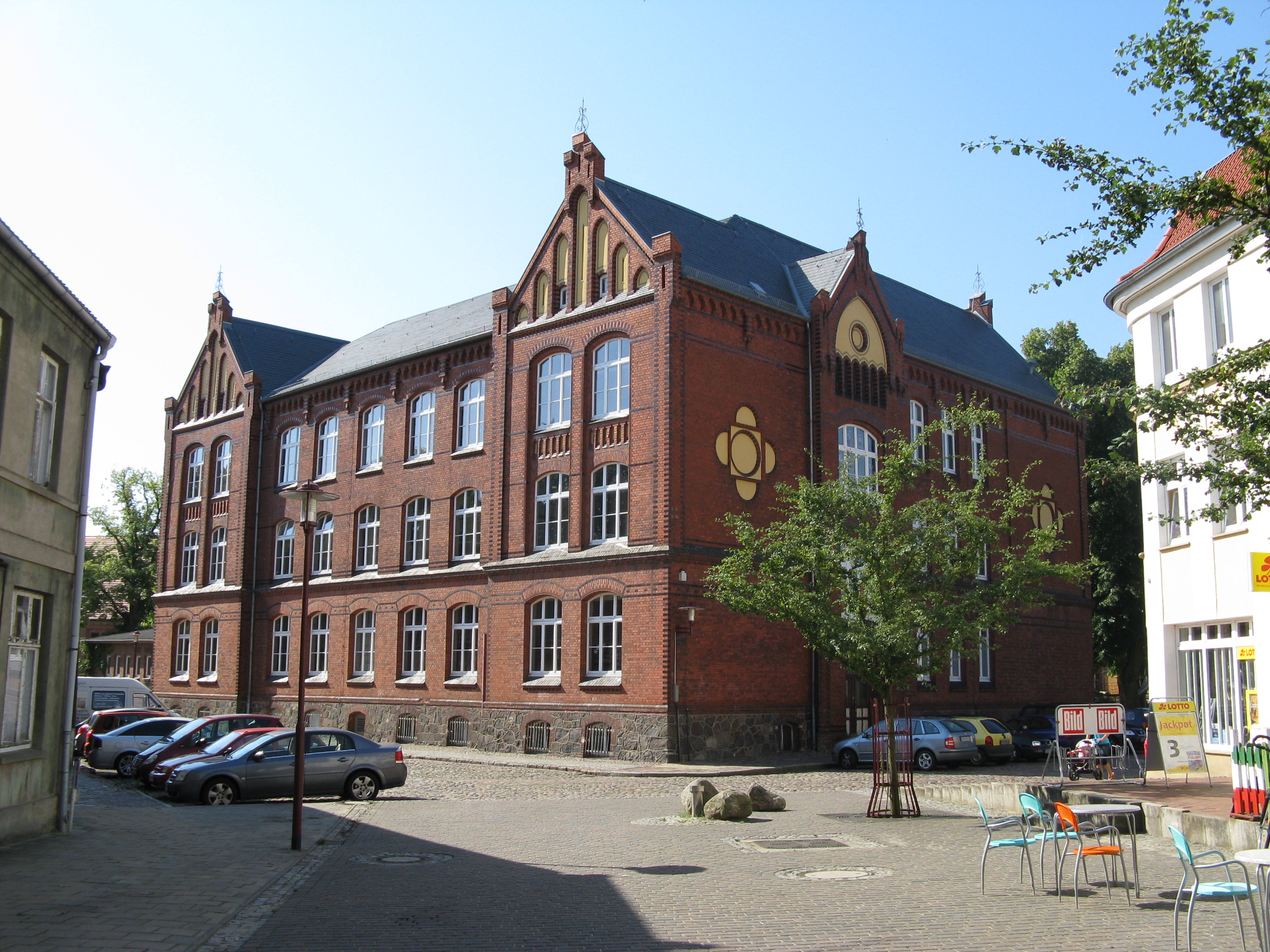 Fritz-Reuter-School (Mönchhof 6) in Parchim, Mecklenburg-Vorpommern, Germany